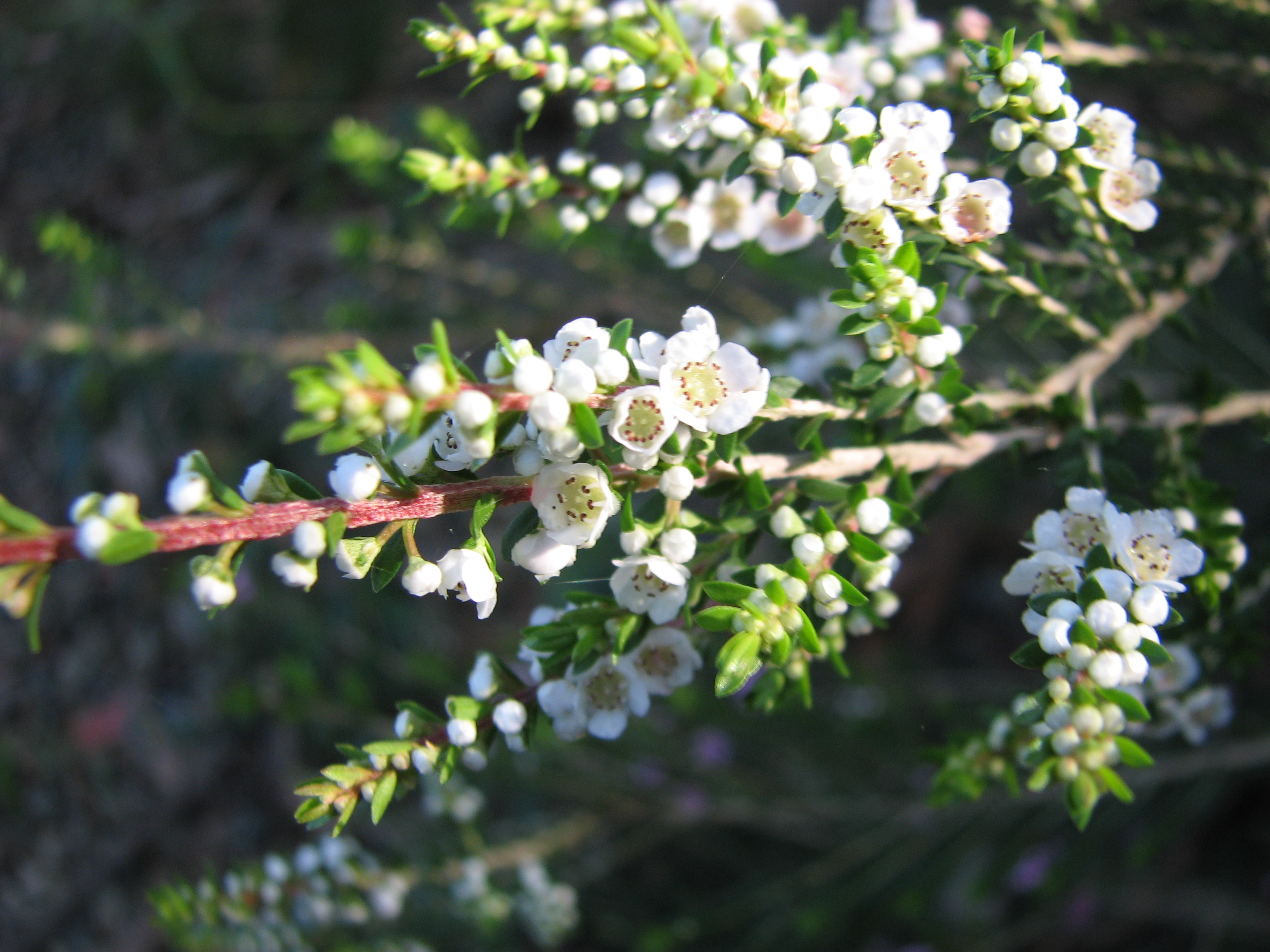 Thryptomene hyporhytis, (cultivated, labelled), Maranoa Gardens, Balwyn, Victoria, Australia